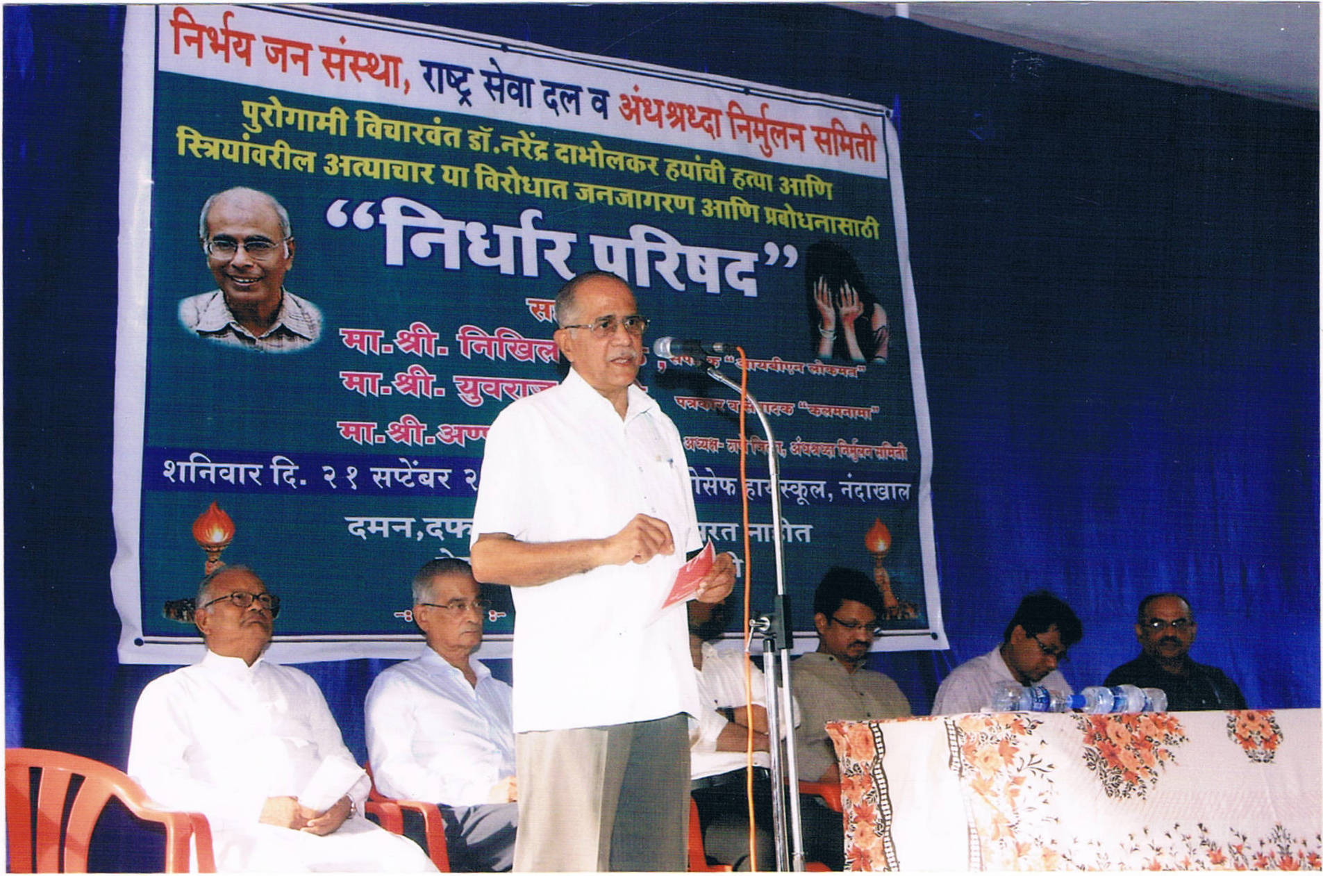 awareness camp against black magic